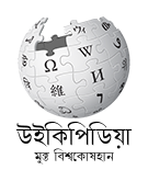 Wikipedia logo 2.0